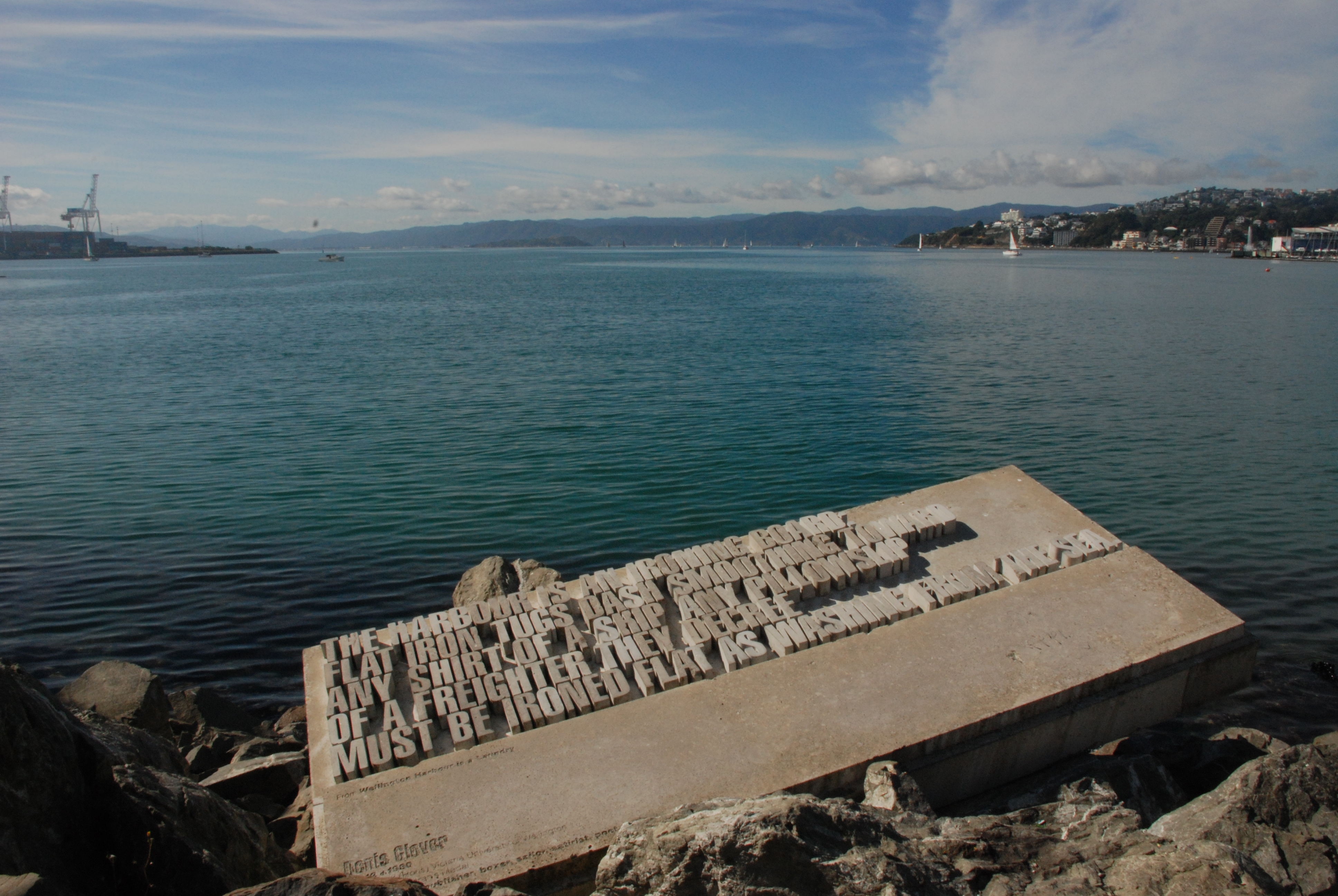 Wellington Harbour with foreground artwork showing an excerpt from Denis Glover's poem 'Wellington Harbour is a Laundry'